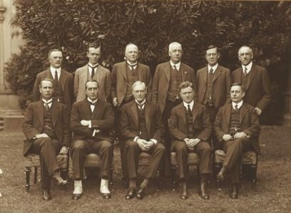 First Bruce Australian Federal Ministry. Left to right: Standing: William Gibson, Postmaster-General Percy Stewart, Minister for Works and Railways Eric Bowden, Minister for Works and Railways Austin Chapman, Minister for Trade and Customs Victor Wilson, Honorary Minister Llewellyn Atkinson, Vice-President of the Executive Council Seated: George Pearce, Minister for Home and Territories Stanley Bruce, Prime Minister and Minister for External Affairs Lord Forster, Governor-General Earle Page, Treasurer Littleton Groom, Attorney-General